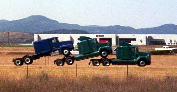 Cropped version of Huckepack.jpg Other version: Image:HuckepackK.jpg